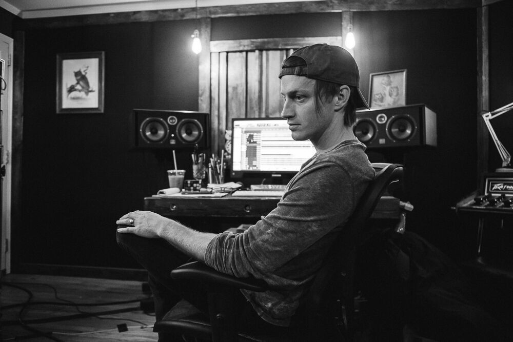 chad